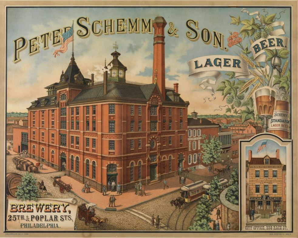 Picture of Peter Schemm & Son Brewery, Philadelphia, about 1887